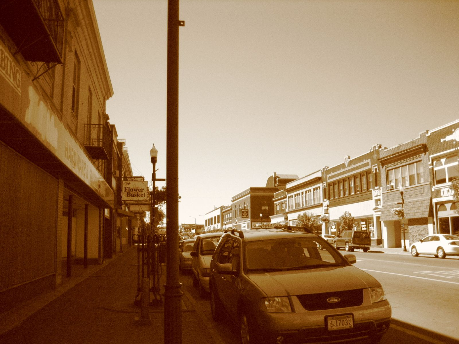 Picture of a street in Hibbing, MN.